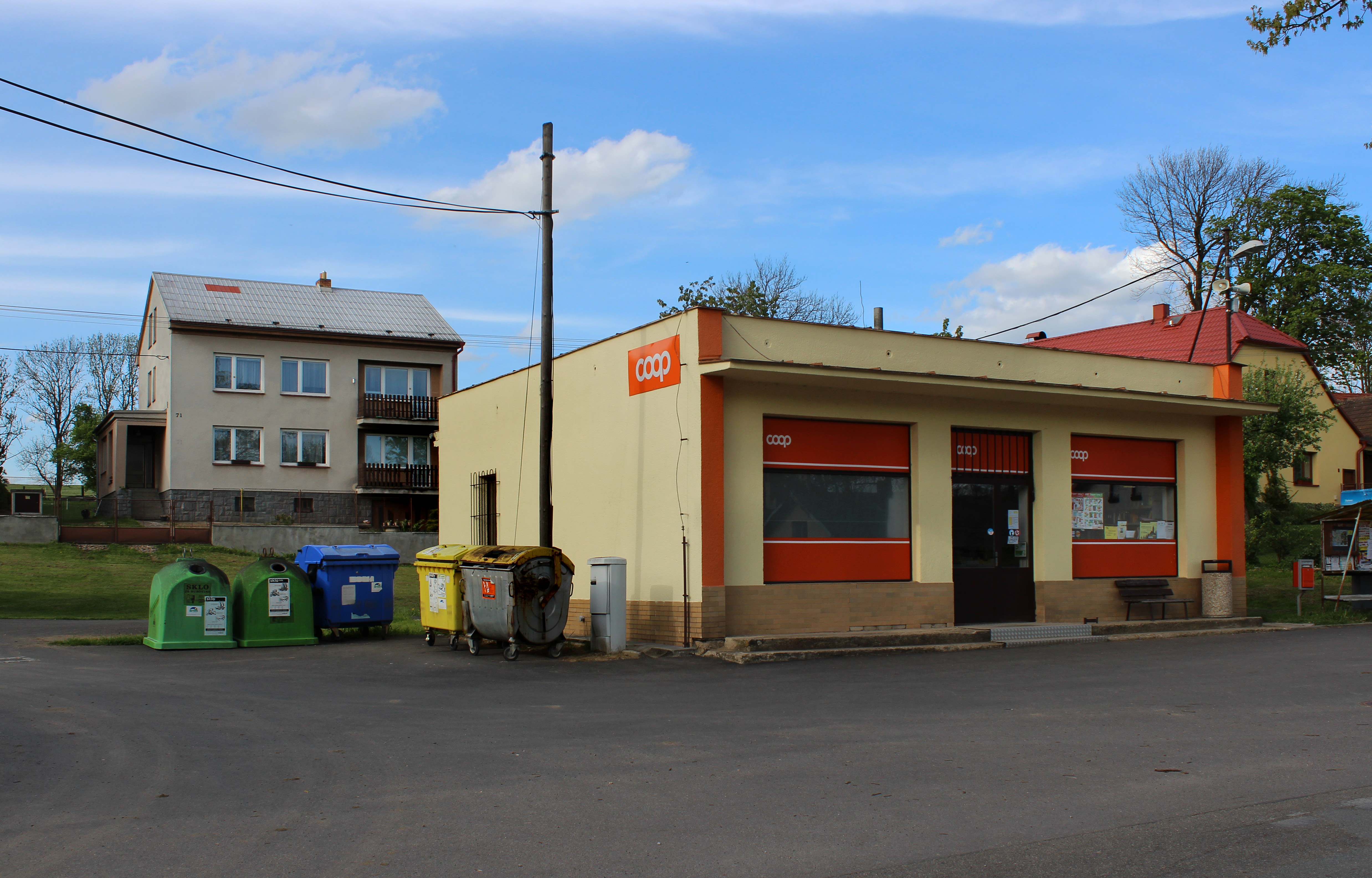 General store in Záborná, Czech Republic